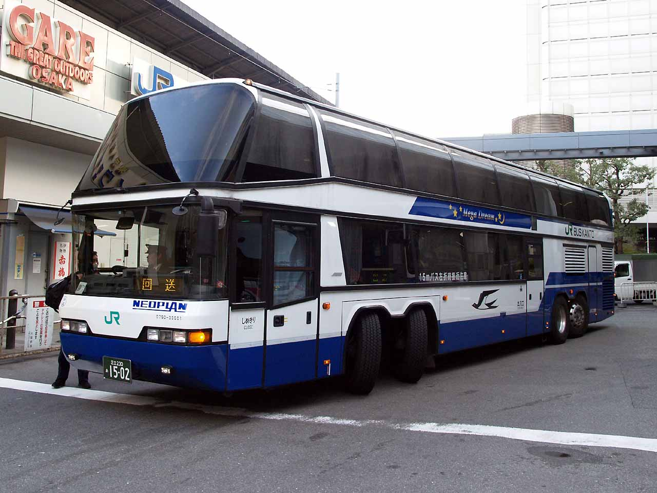 Neoplan Megaliner N128/4 operated in "Seishun Mega-Dream", arrived at Osaka. Date:2007-02-28 Place:Osaka Station, Japan Taken by:Comyu